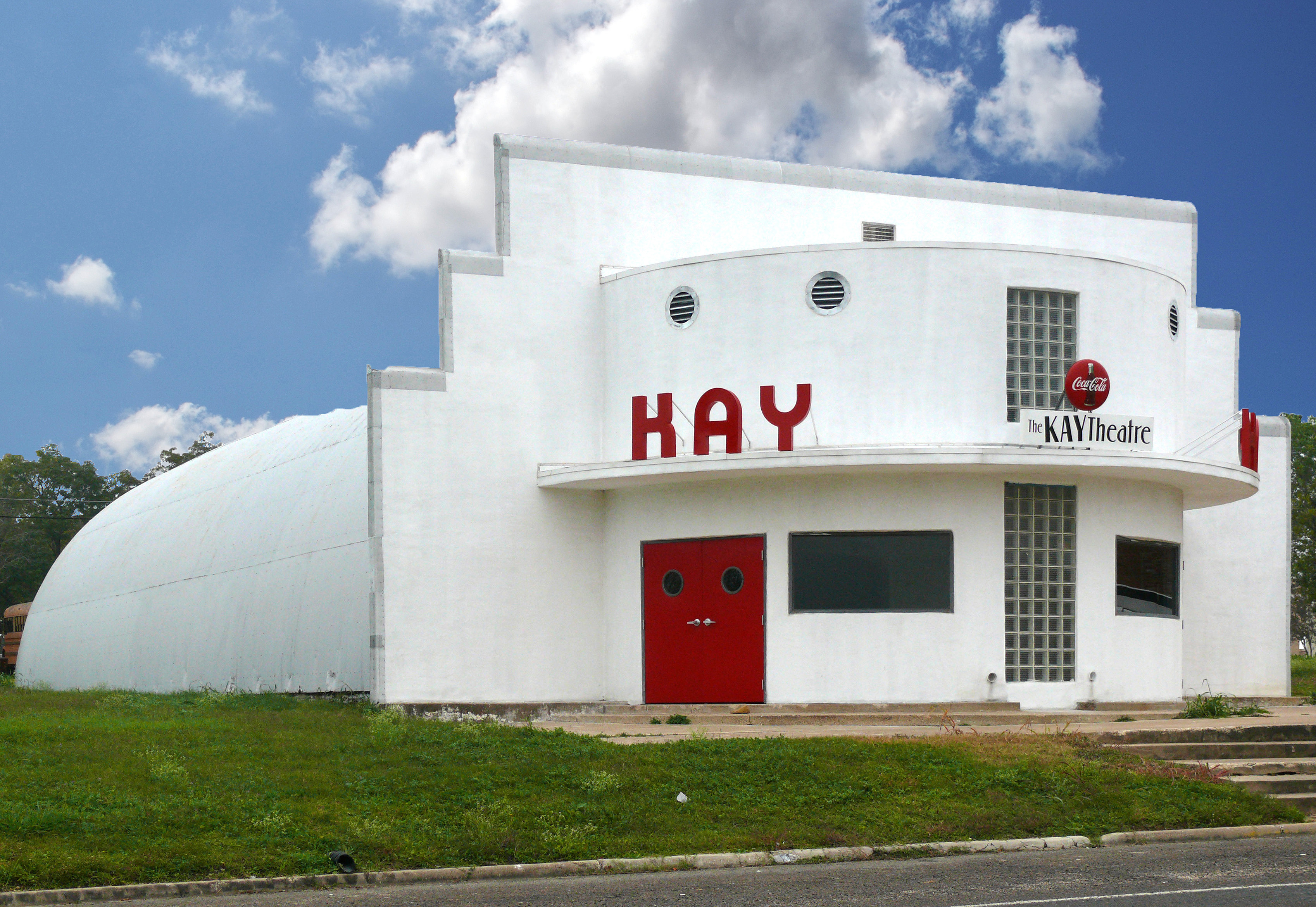 The Kay Theater opened on N. Main Street in Rockdale, Texas on November 27, 1947 and closed in the early 1960’s. For years it fell into serious disrepair until a group calling themselves the Kay Theater Foundation restored it about 2005-2008. It is now a performing arts center often featuring musical groups.